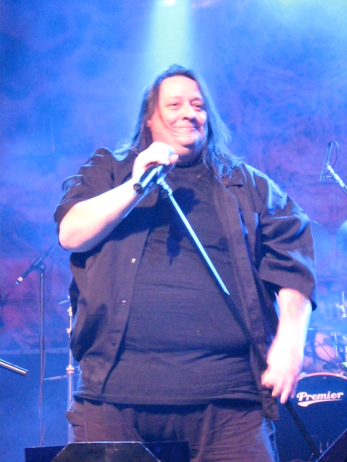 Jon Oliva's Pain on stage at ProgpowerUK 2, Cheltenham, England. March 31st 2007.